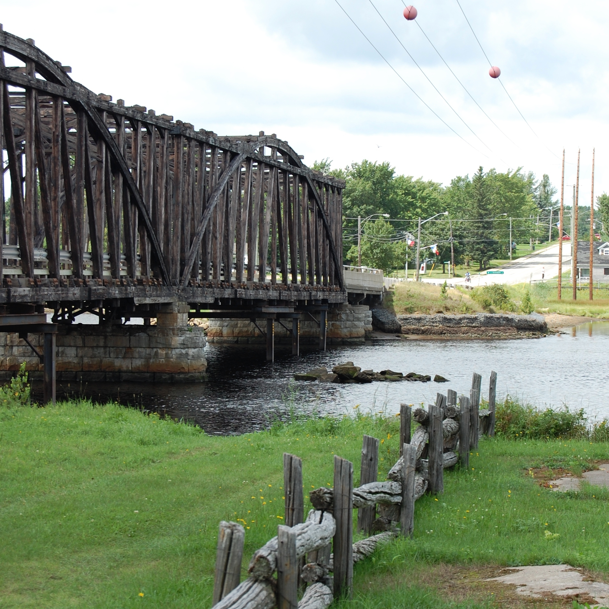 View of Kouchibouguacis River as it passes under the bridge at St Louis de Kent